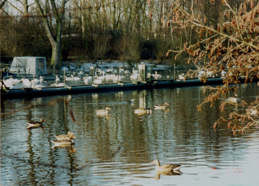 The swan area of the Eppendorfer Mühlenteich in Hamburg-Eppendorf, January 13, 1995; center (blurred): a red-throated diver (Gavia stellata)